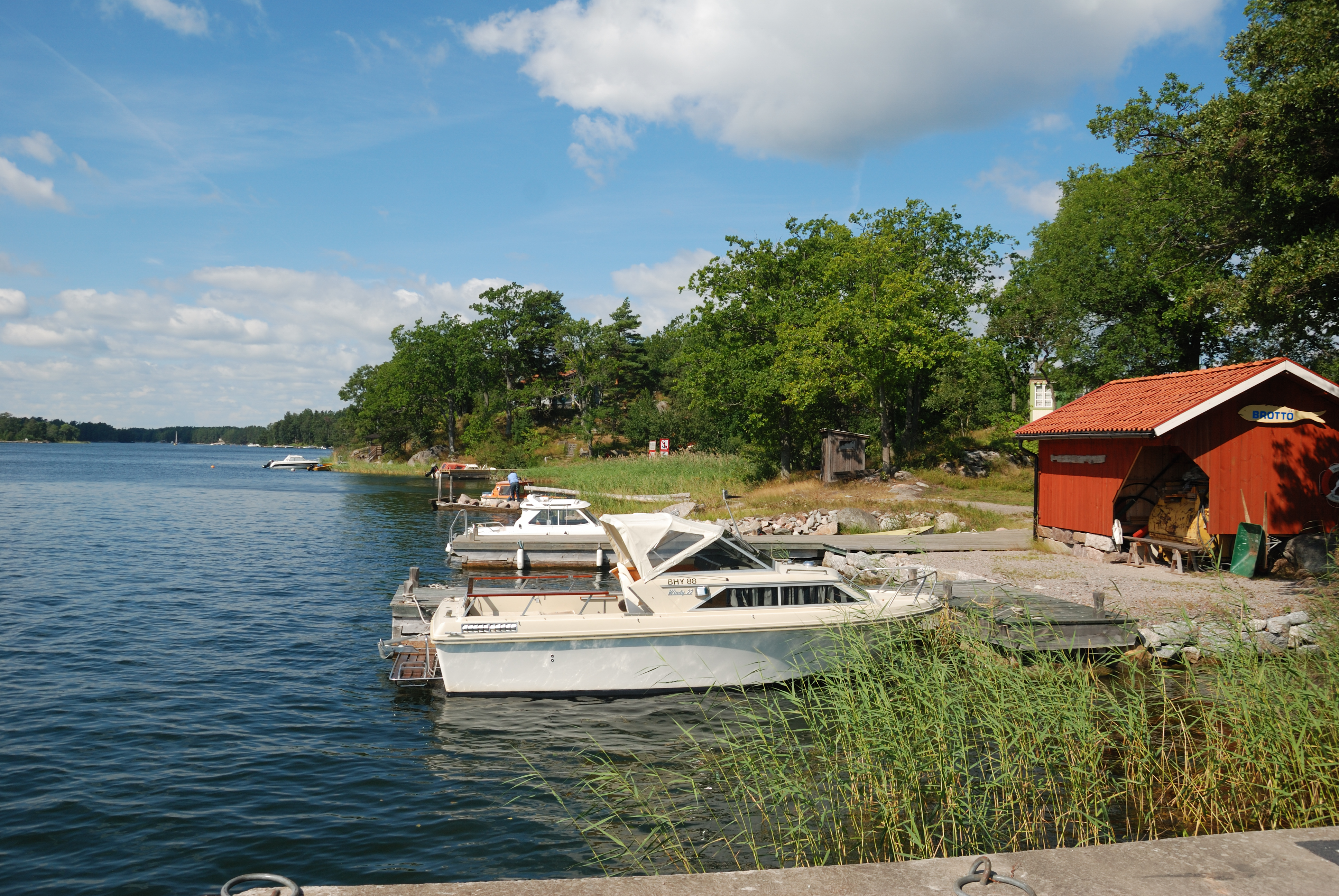 Brottö, July 2011.